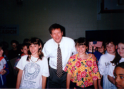 John Kasich during his time in Congress